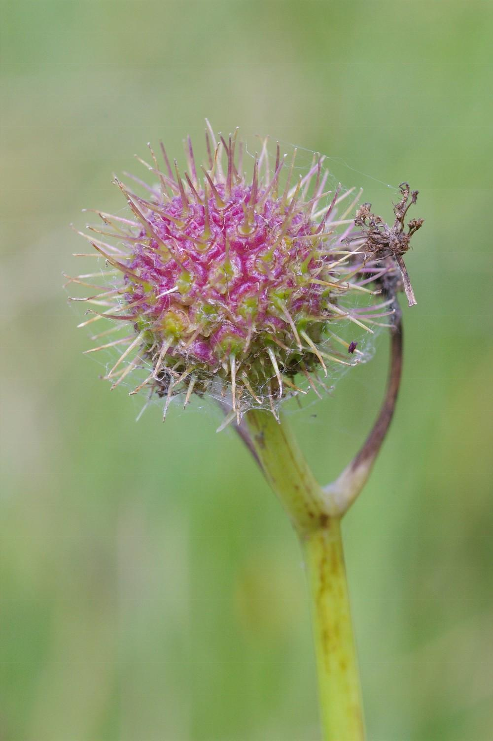 Fruit of Oenanthe fistulosa (Apiaceae).